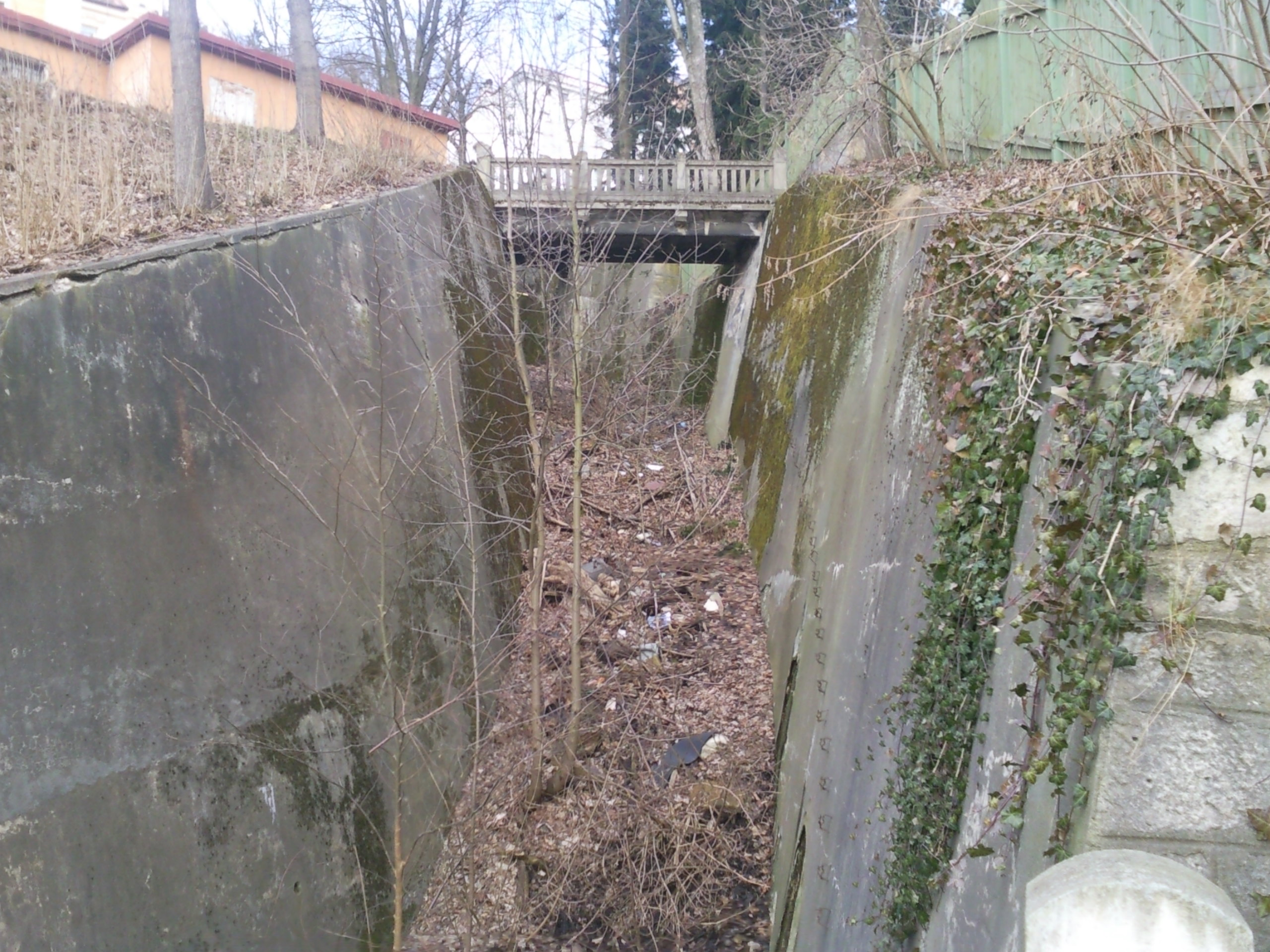 Tři Kříže Funicular